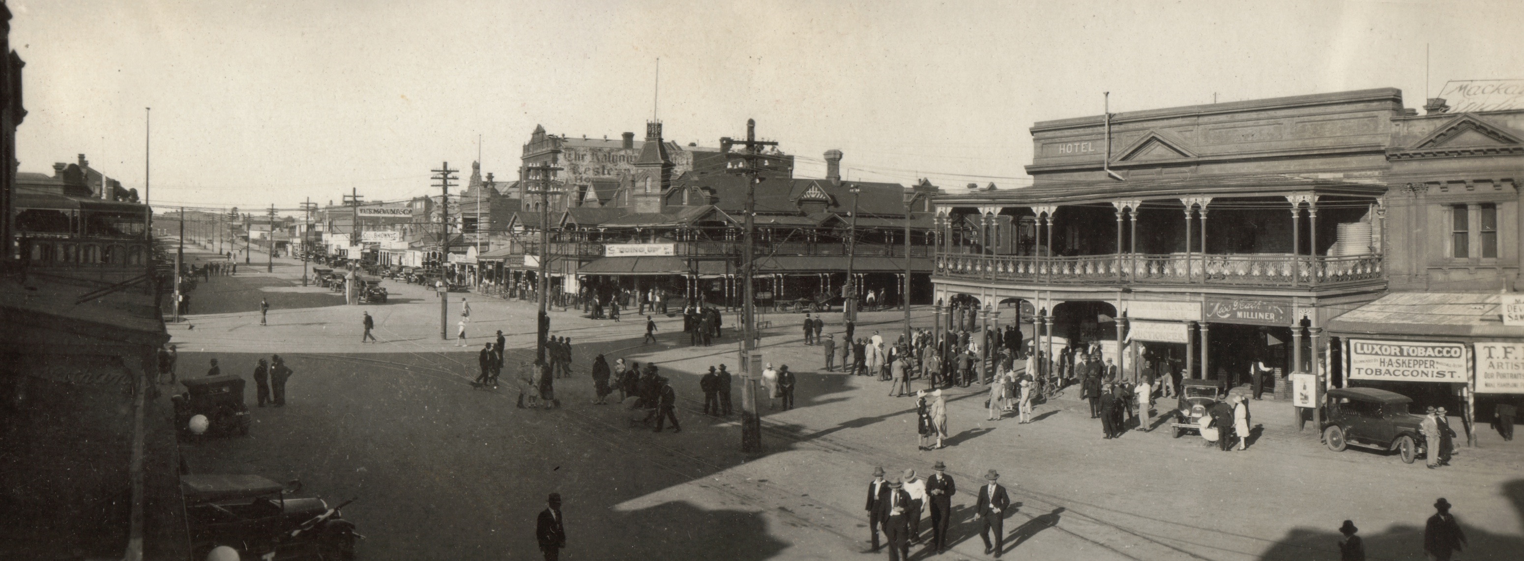 Intersection of Hannan St and Maritana St, Kalgoorlie, Western Australia. The Exchange Hotel is central, with the Palace Hotel on the right. This is a stitch of two photos taken within minutes of each other, possibly from the balcony of the Mechanics Institute.